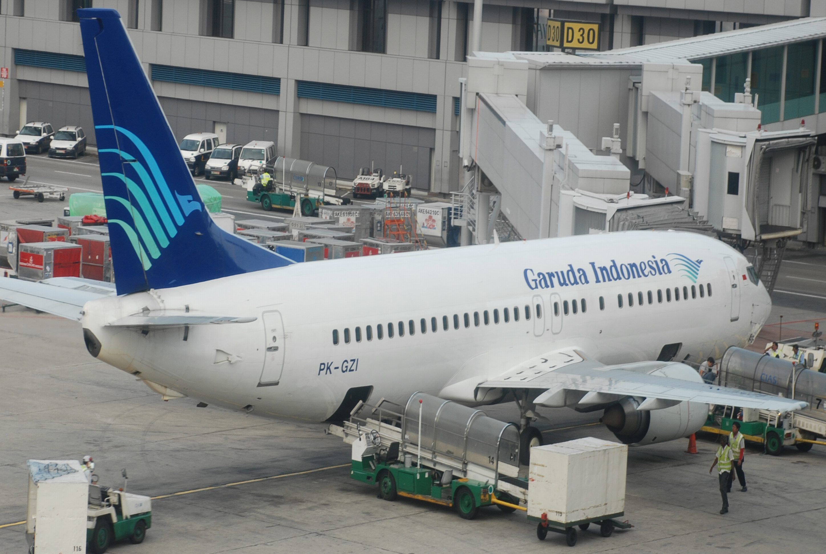 Garuda Indonesia Boeing 737-400 (PK-GZI) at Singapore Changi Airport.